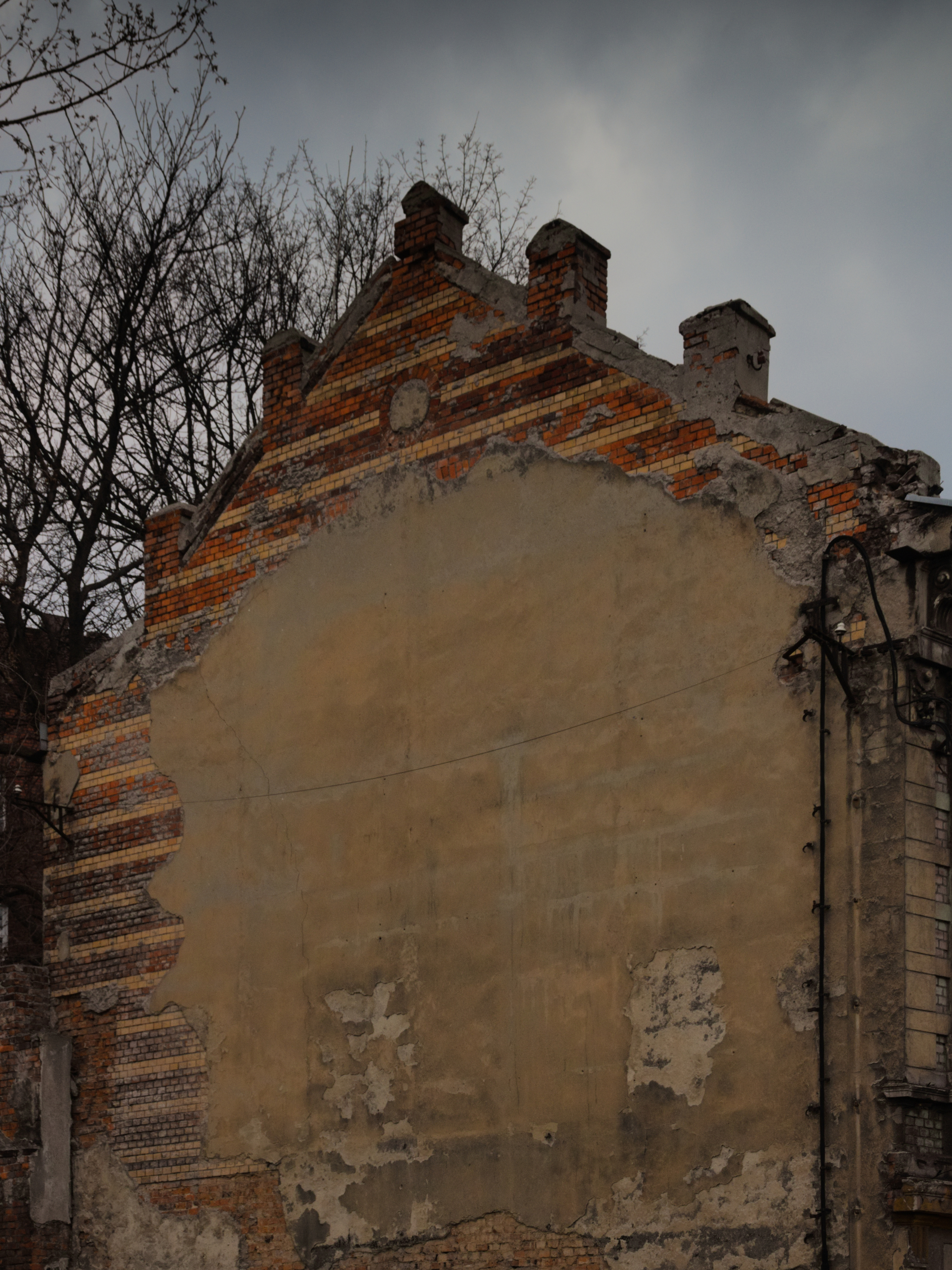 Wall of tenement house, Wojciecha Korfantego 31 street in Bytom